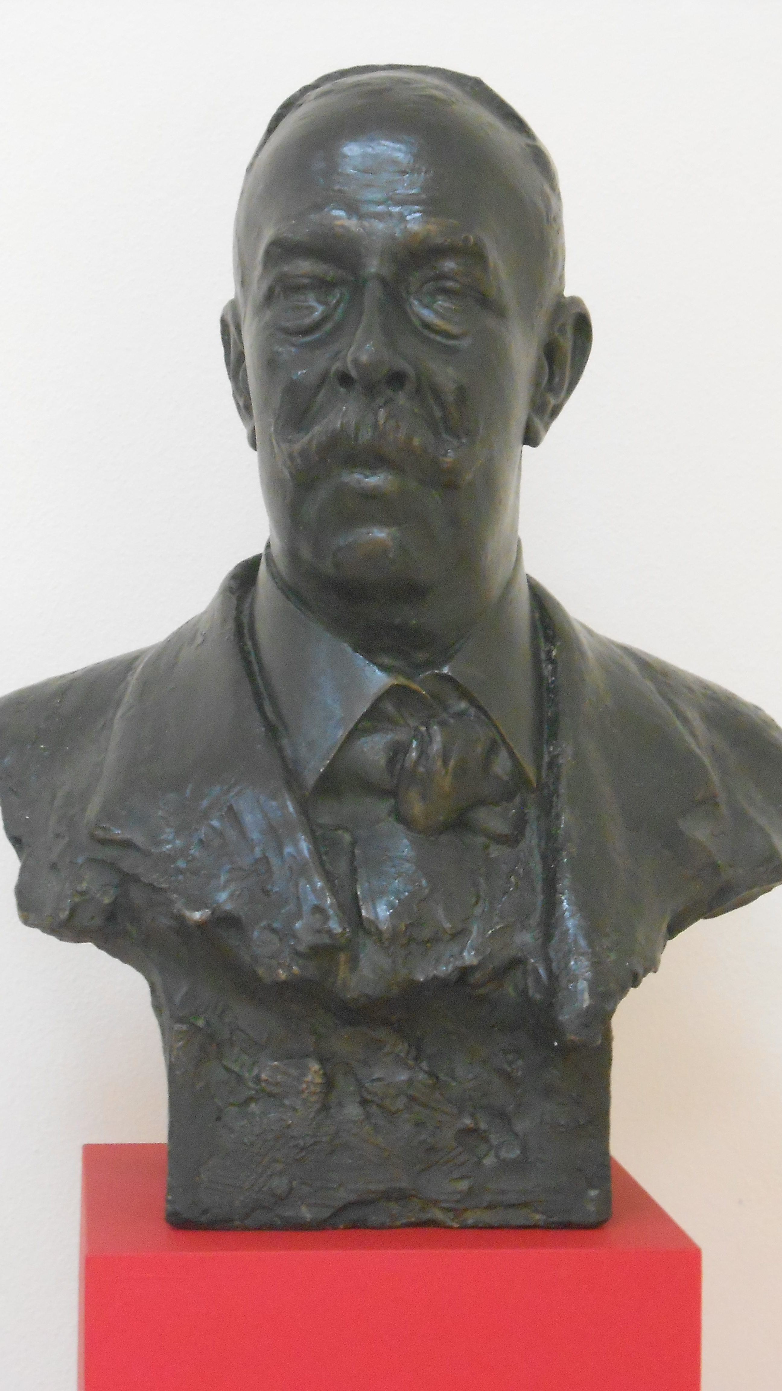 Bust of archaeologist António dos Santos Rocha, in the Museu Municipal Santos Rocha in portuguese seaside town Figueira da Foz.